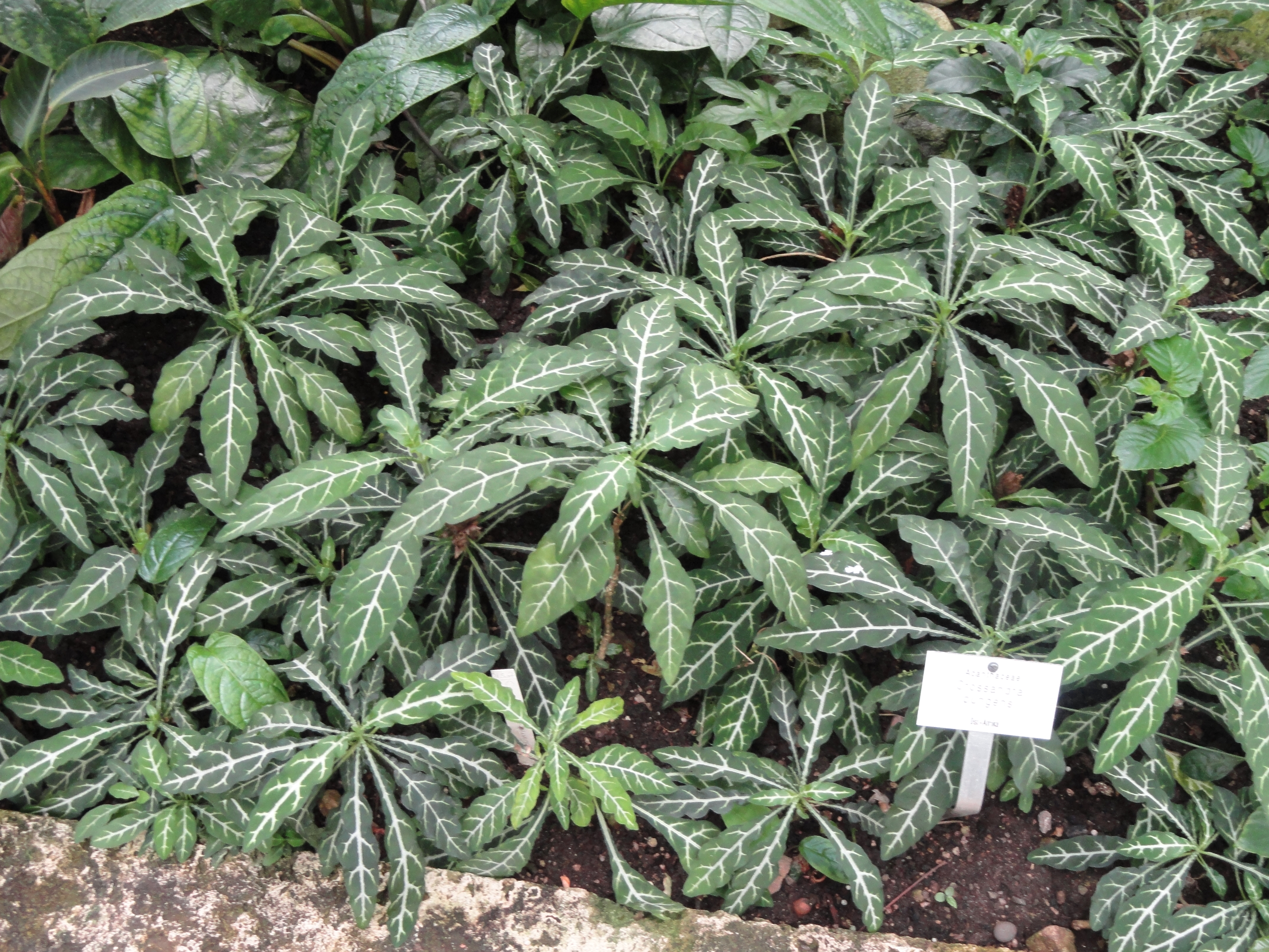 Crossandra pungens specimen in the Botanischer Garten Freiburg, Freiburg im Breisgau, Baden-Württemberg, Germany.